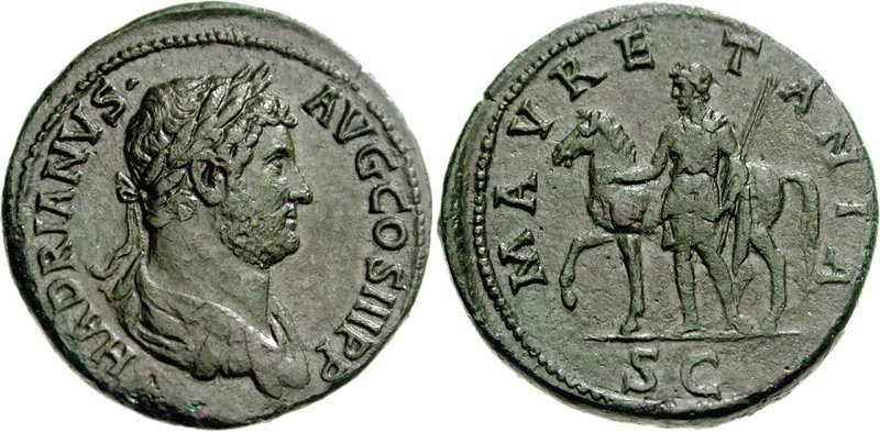 Hadrian. AD 117-138. Æ Sestertius (26.70 g, 12h). Struck circa AD 134-138. HADRIANVS • AVG COS III P P, laureate and draped bust right MAVRE-TANIA, Mauretania standing left, holding two javelins and bridle of horse pawing left; S C in exergue. RIC II 859; Banti 533 = Mazzini 957 (this coin)